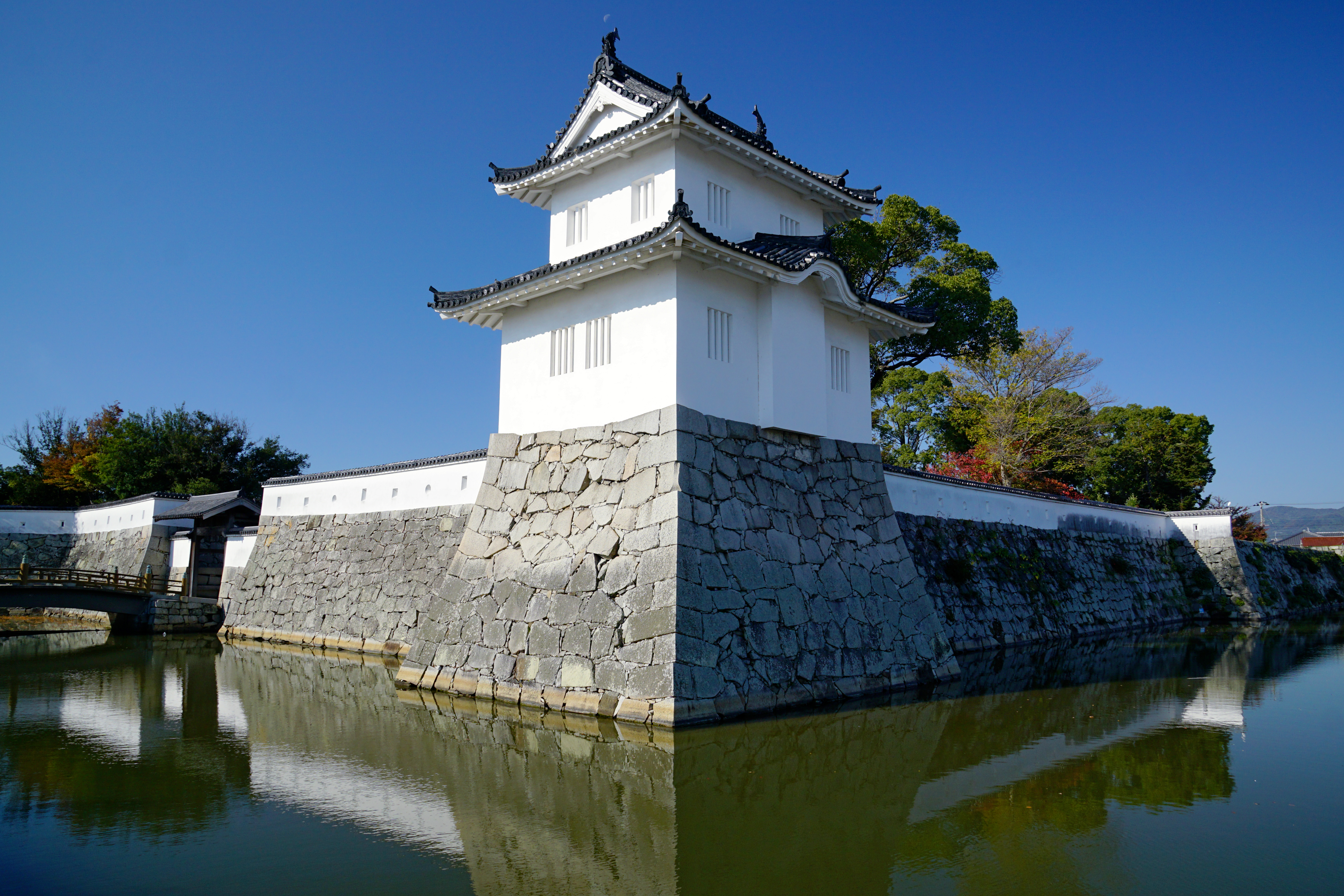 Akō Castle in Ako, Hyogo prefecture, Japan.